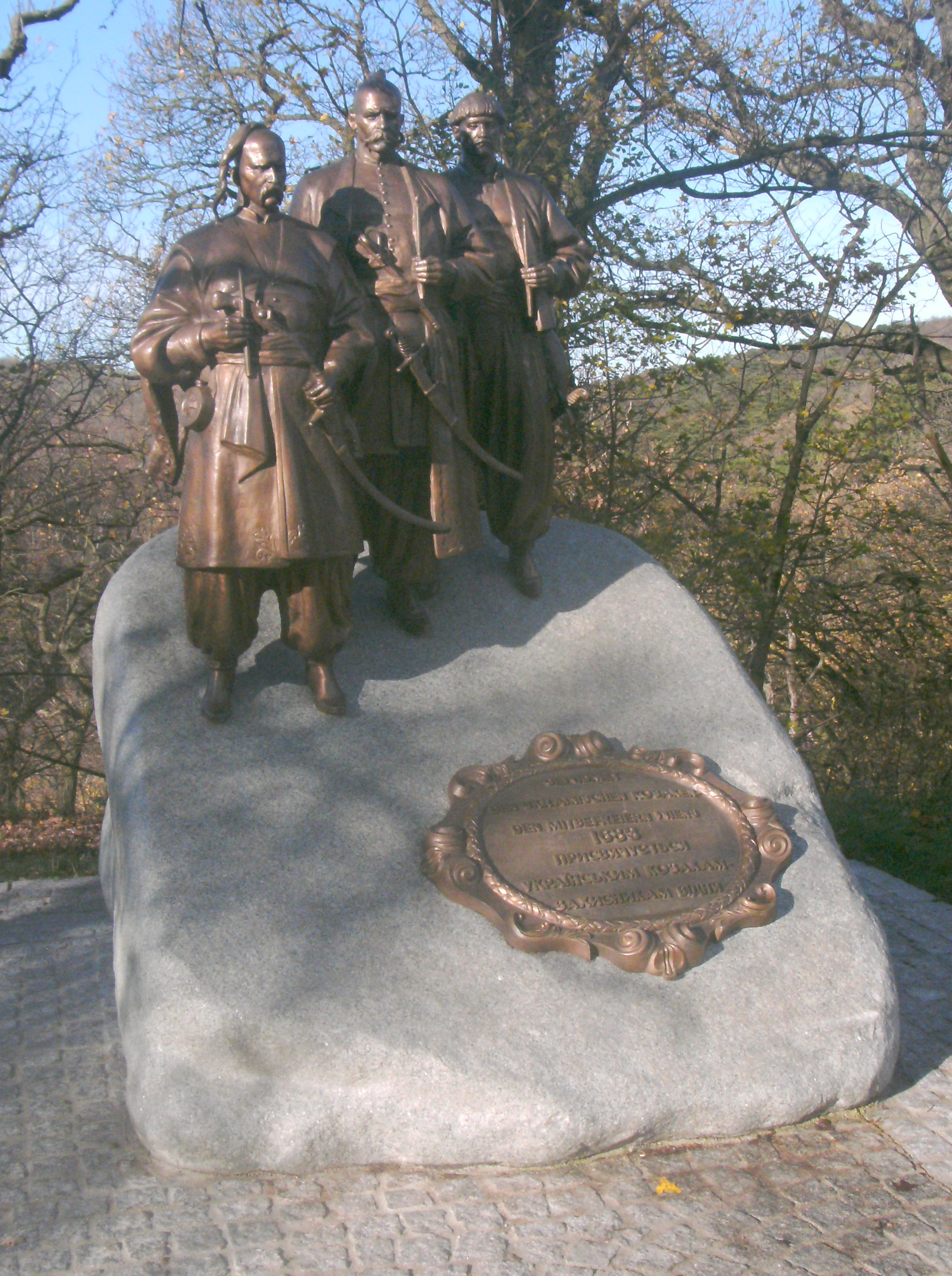 Monument of the Ukrainian Cossacks, who took part in the Battle of Vienna in 1683.